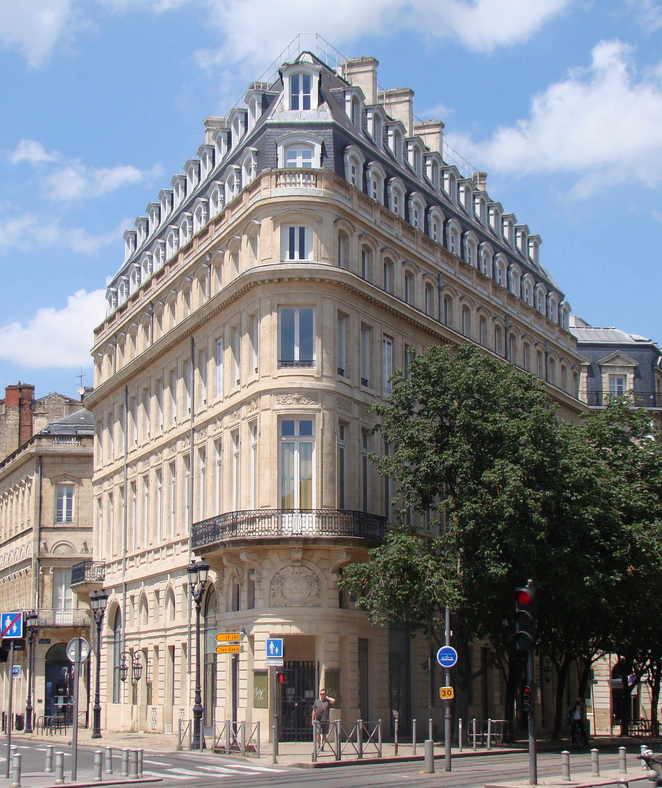 Maison Gobineau, head office of the Conseil Interprofessionnel du Vin de Bordeaux (CIVB), widely known as "La Maison du Vin de Bordeaux". The building, completed in 1789, was designed by the architect Victor Louis, for Thibault-Joseph de Gobineau, a councillor at the Bordeaux Parliament.